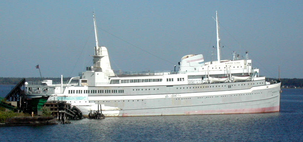 Photo of S.S. Milwaukee Clipper taken from the Lake Express High Speed Ferry as it departed it's Muskegon, Michigan terminal